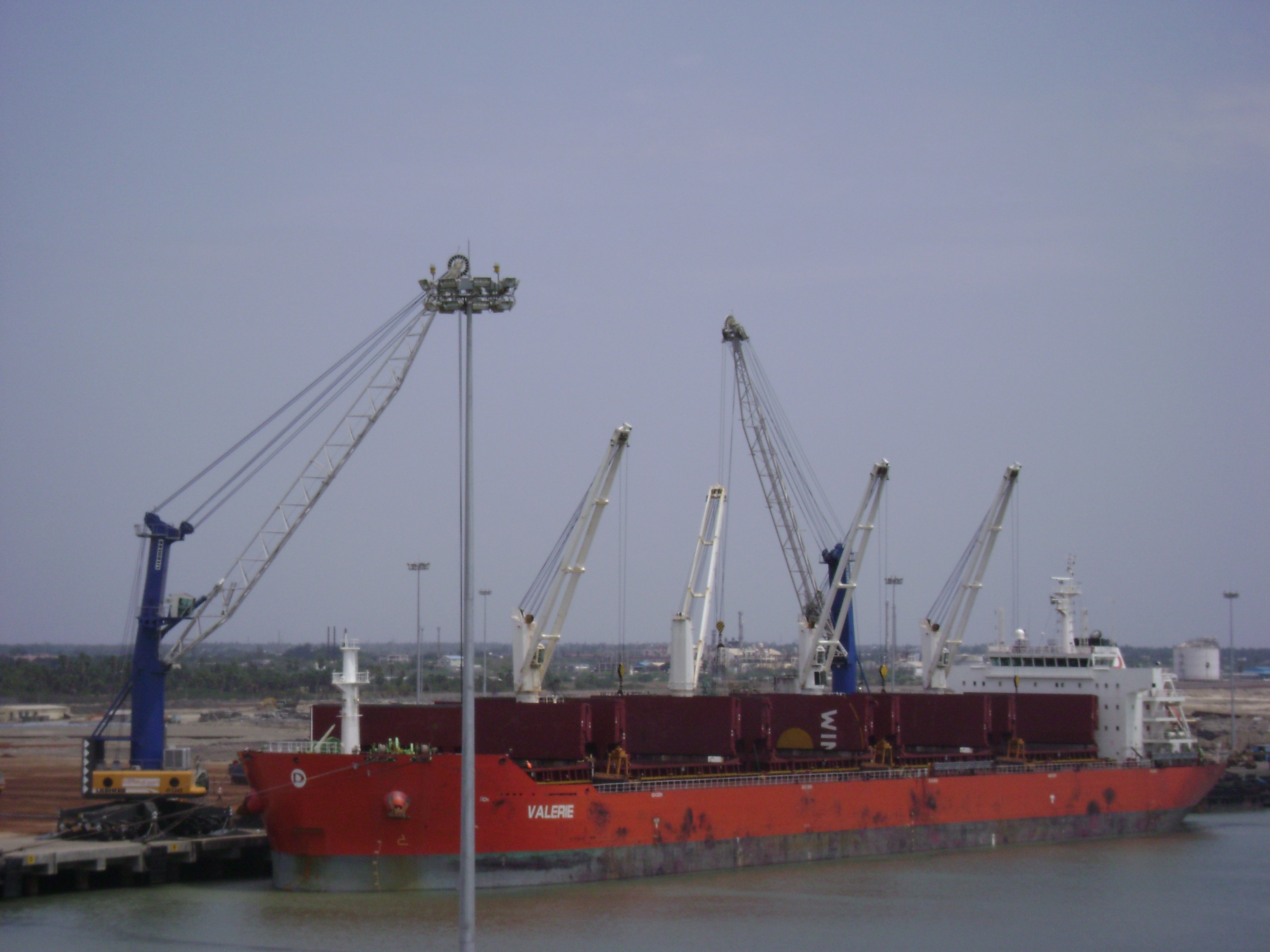 Karaikal Harbor